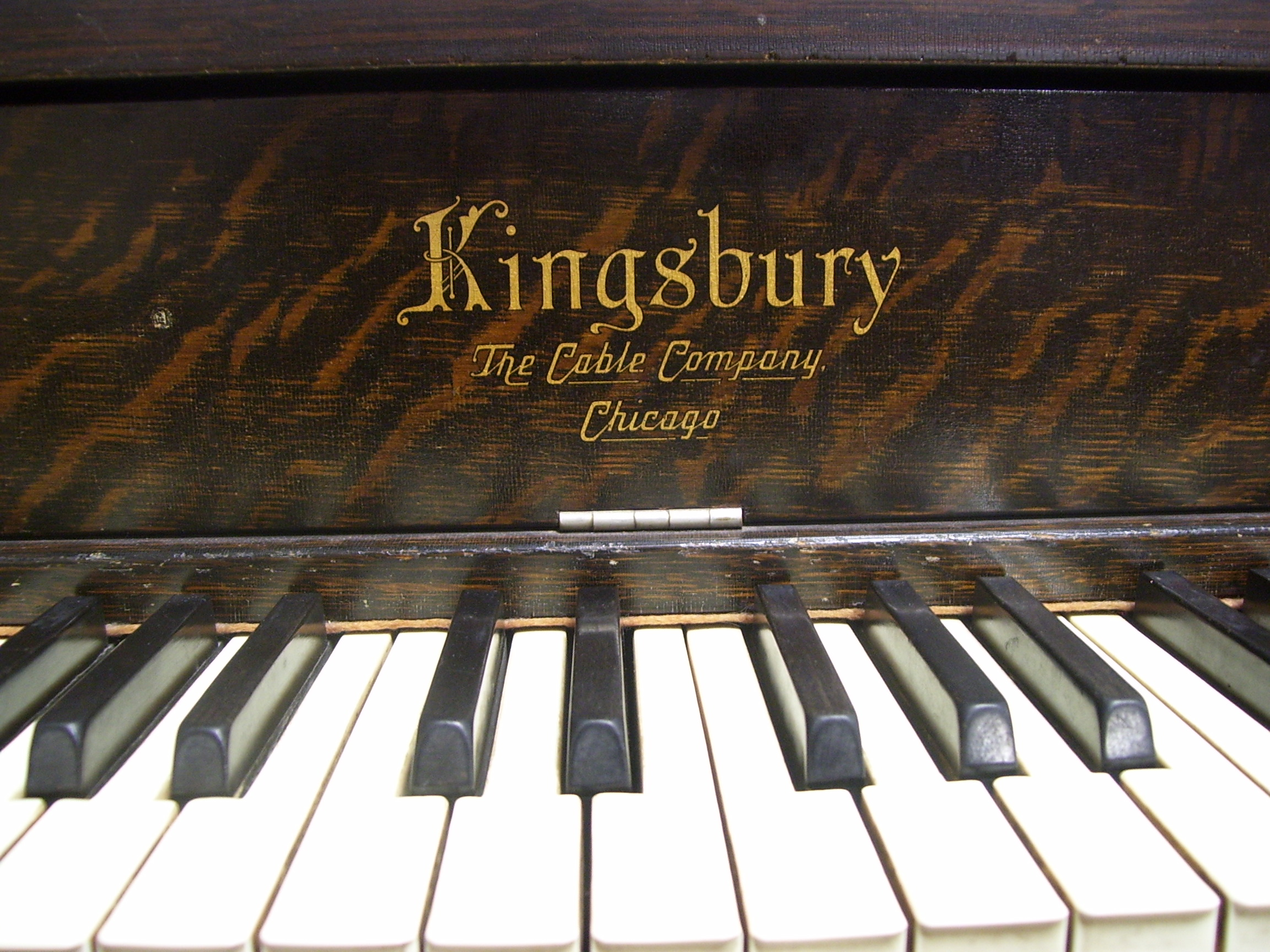 A Kingsbury piano, built by the Cable Piano Company of Chicago, Illinois, USA, after it had acquired the brand.